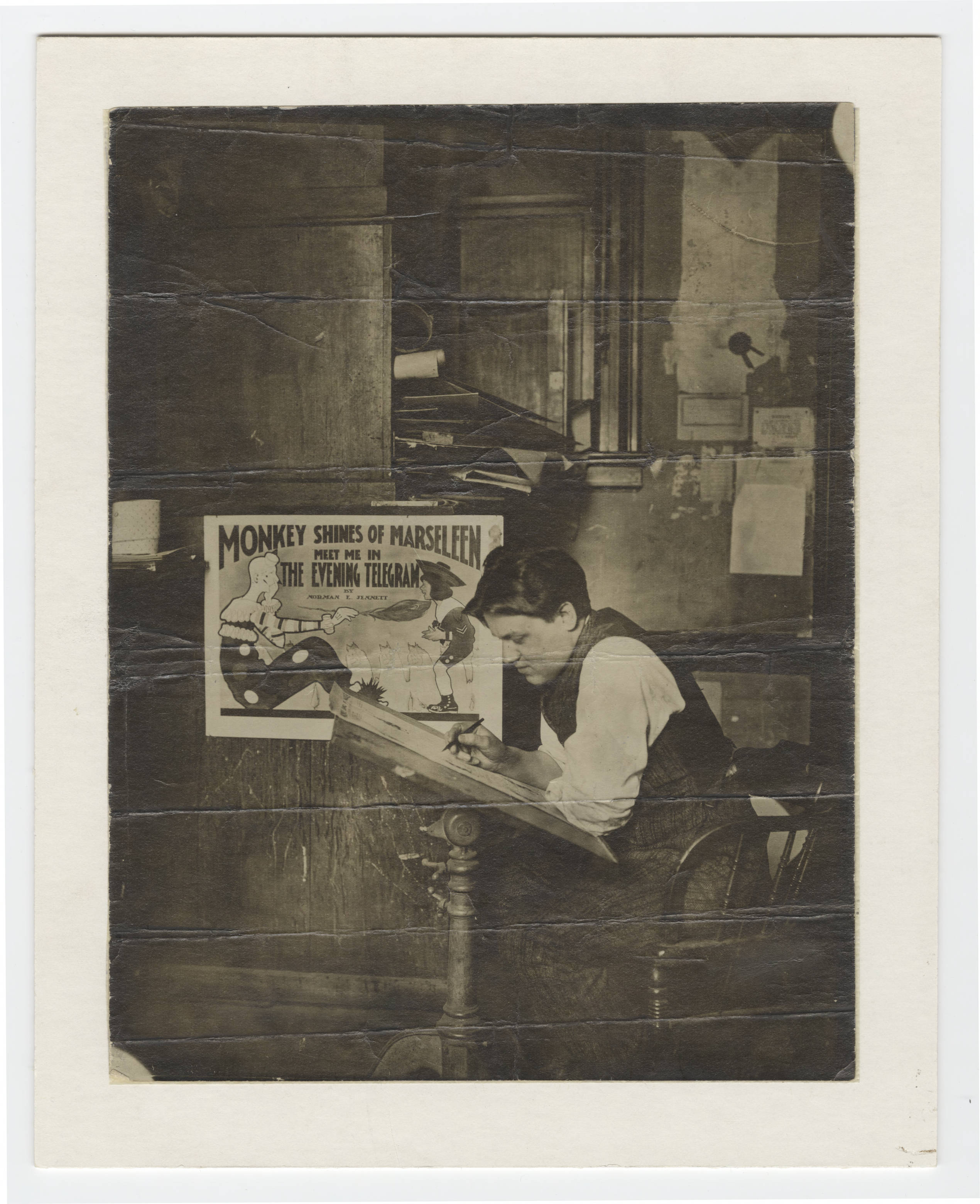 Norman Ethre Jennett. c.1900